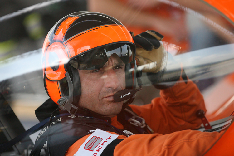 Nicolas Ivanoff aboard his Edge 540 in 2009